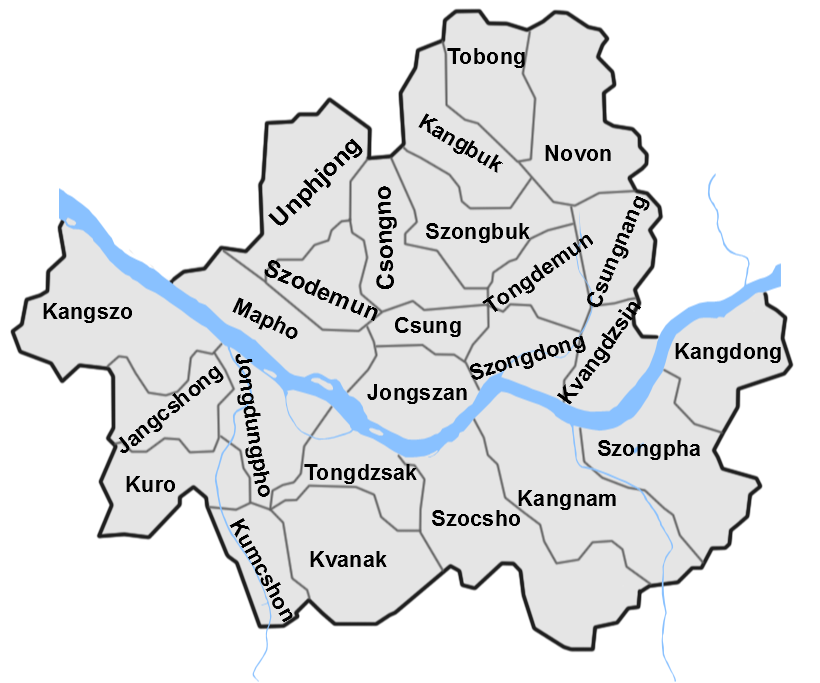 Districts of Seoul with Hungarian labels